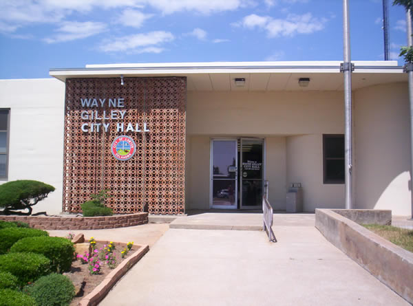 Picture of Lawton OK City Hall